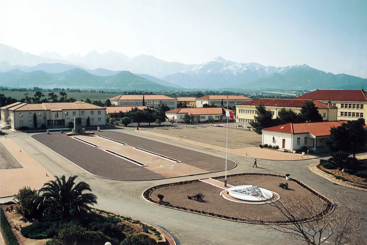 Photo of Camp Rafalli in the city of Calvi, Haute Corse (Island of Corsica, France), home of the 2ème REP. Photo taken from the water tower.